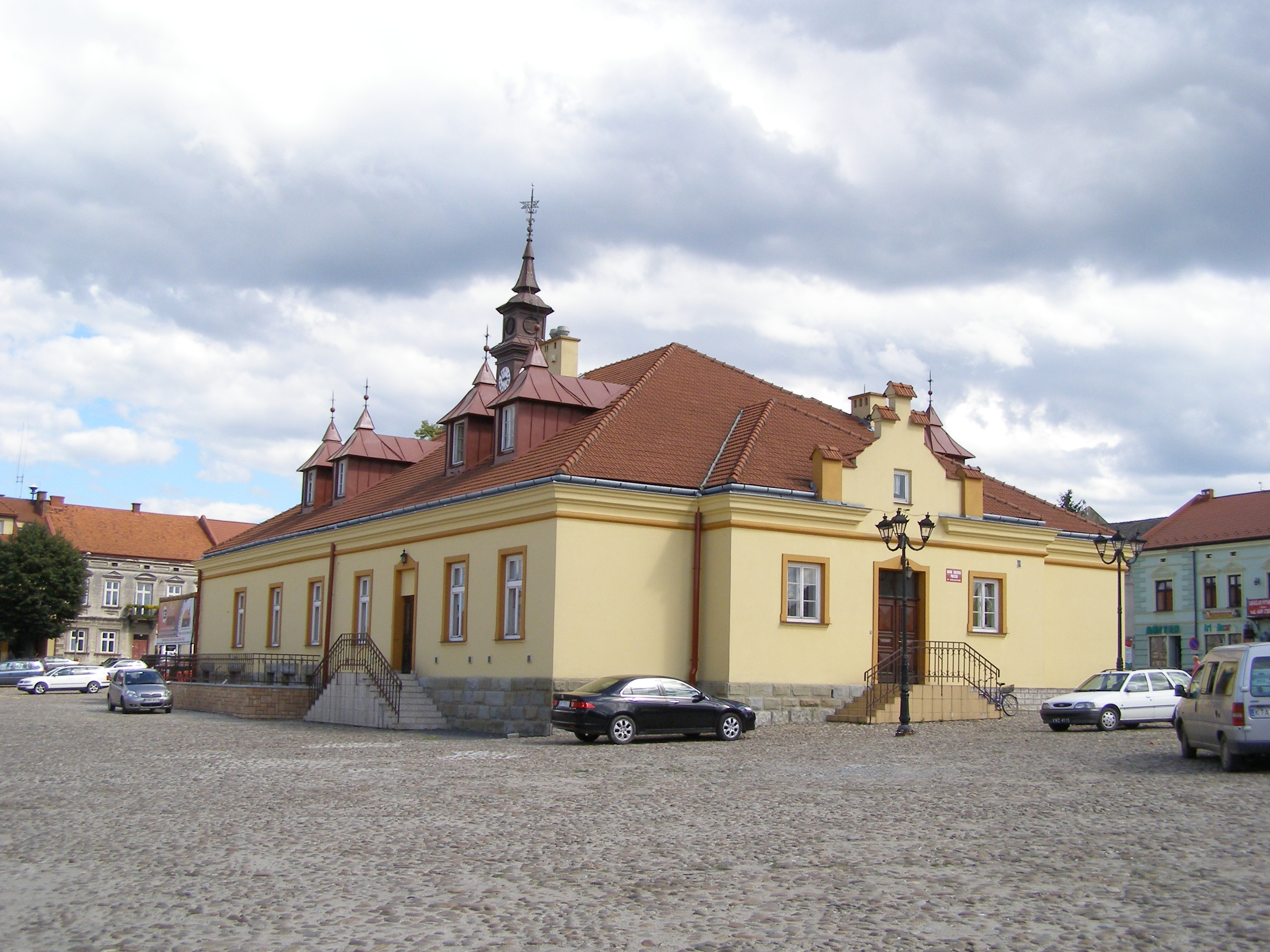 Zakliczyn - the town hall